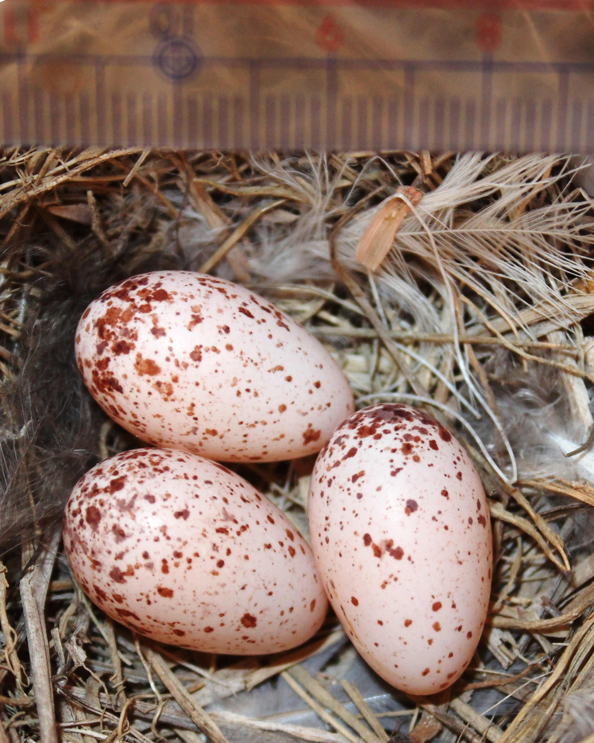 Eggs of Barn Swallow (Hirundo rustica gutturalis), in Japan. Scale is millimeter.